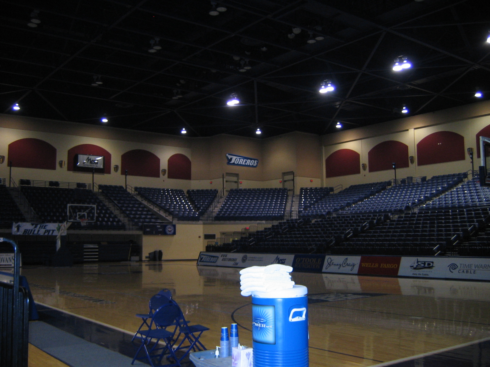 Interior 2007.